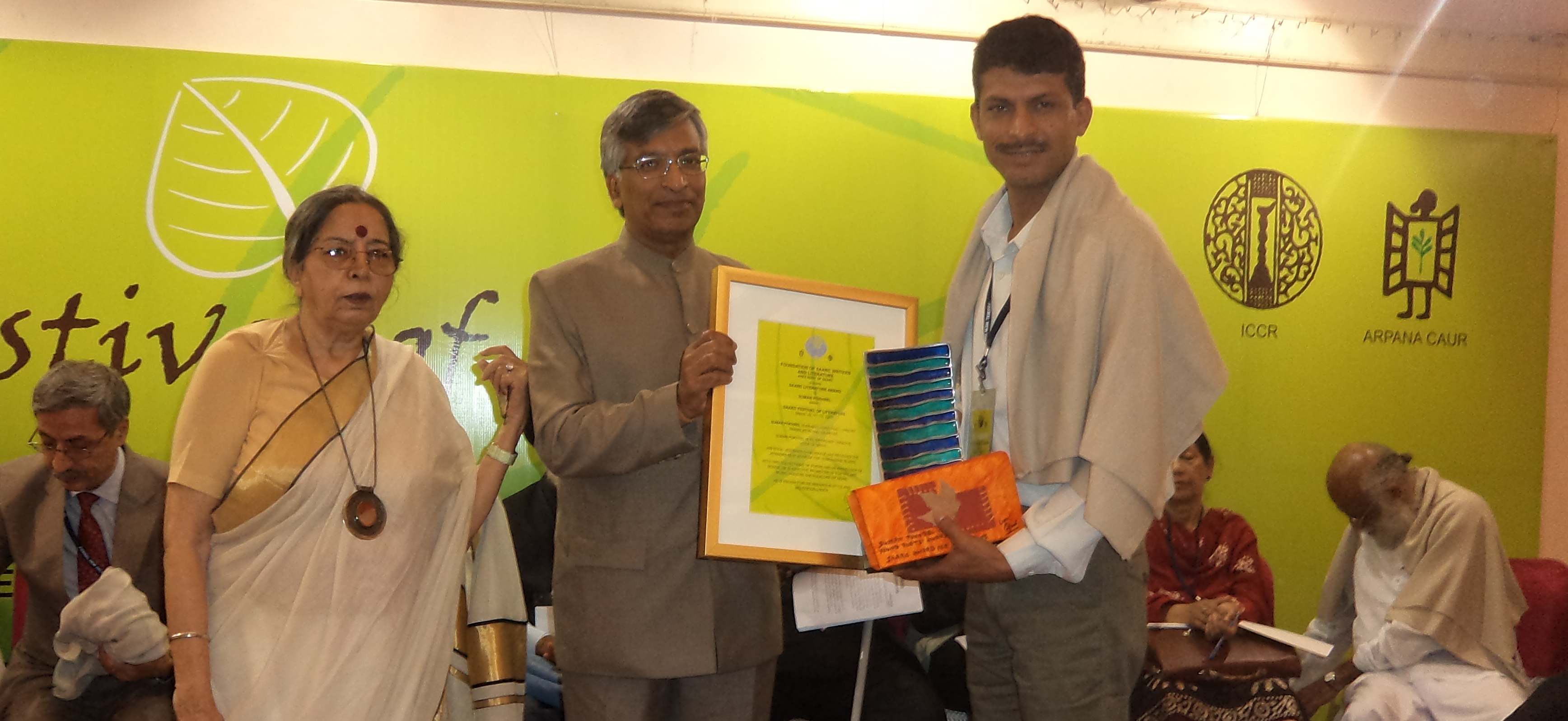 Suman Pokhrel receiving SAARC Literary Award 2013